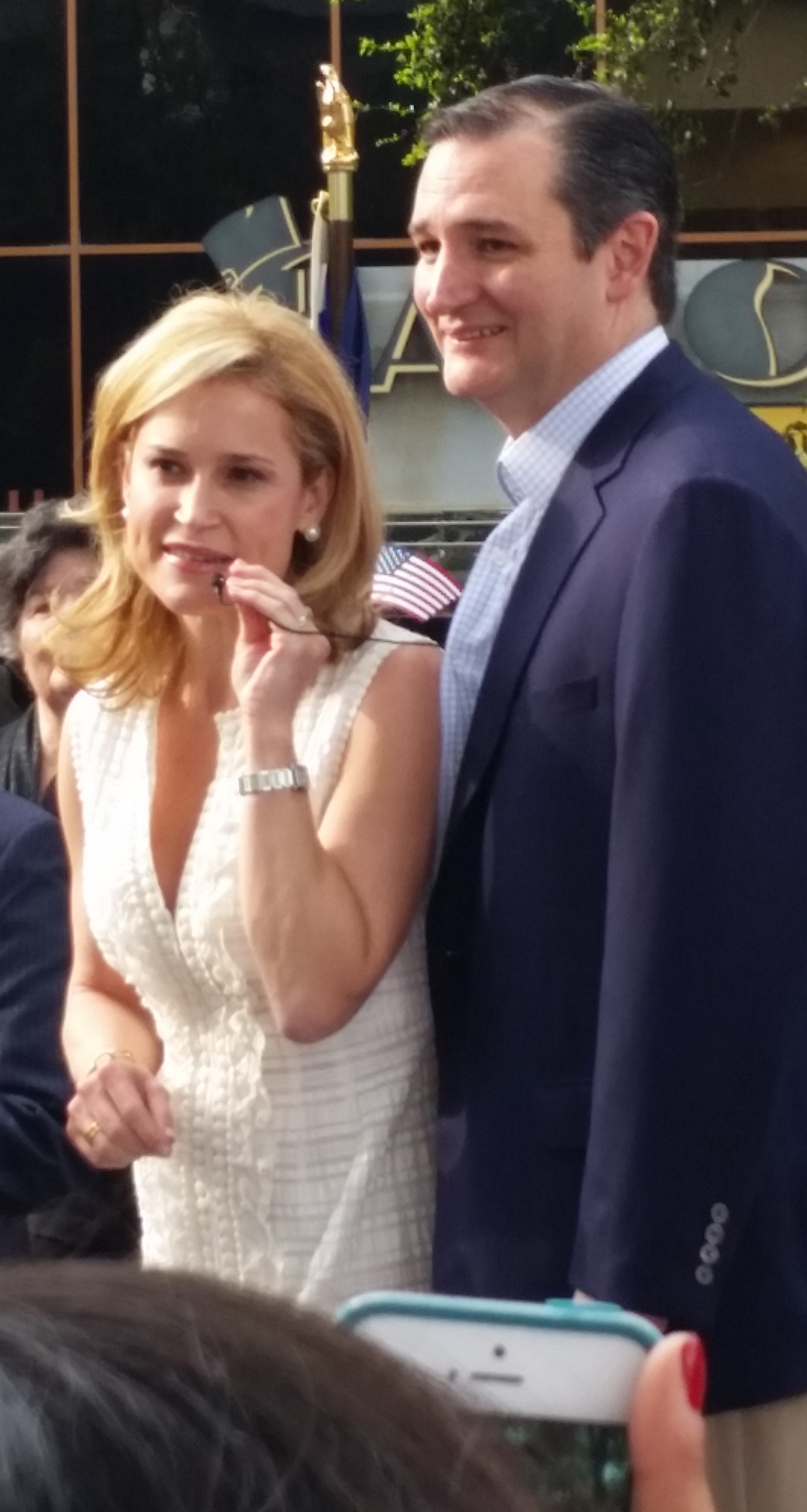 Heidi Cruz and Ted Cruz at a rally in Houston, Texas on March 31, 2015.